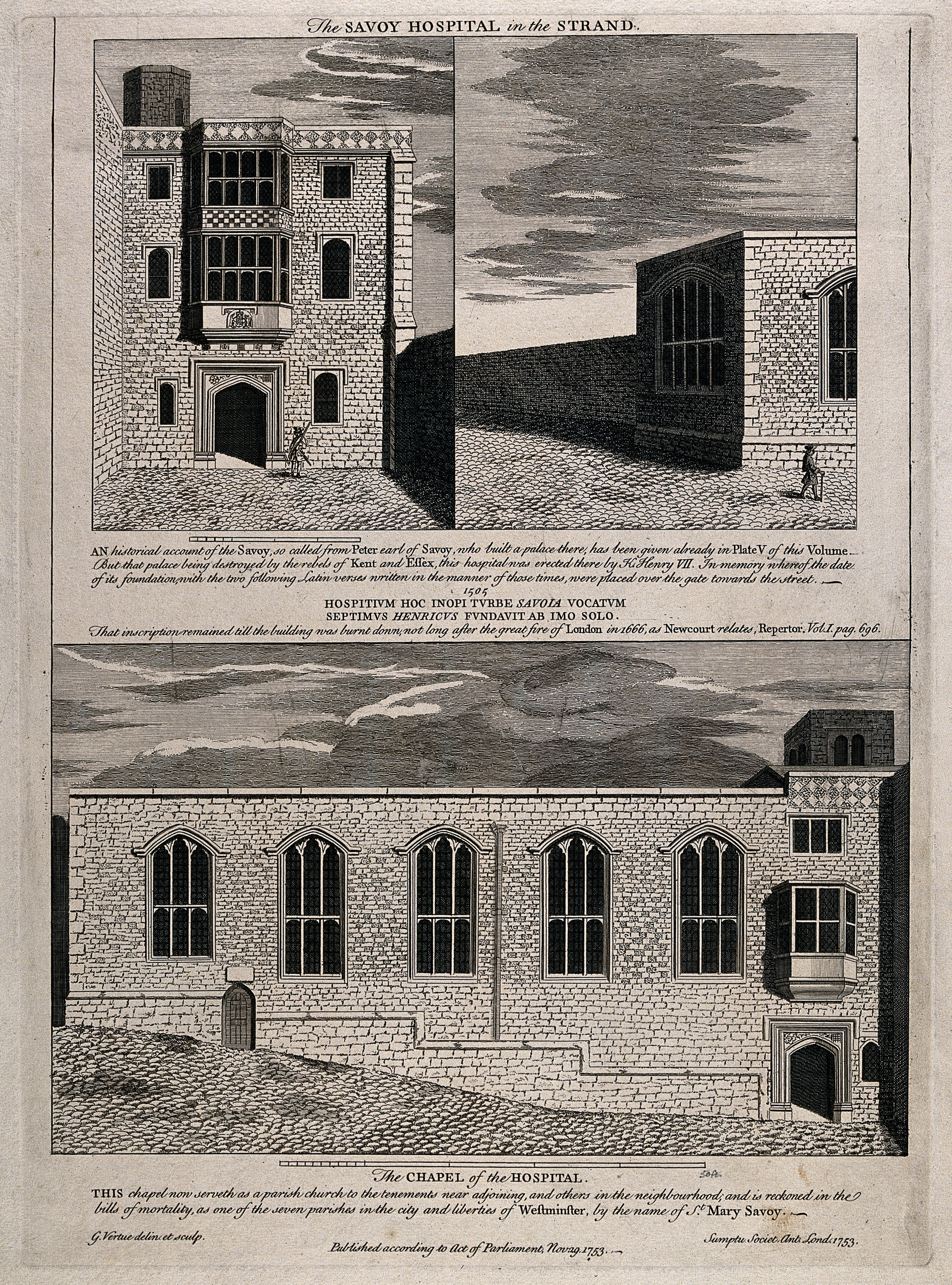 Savoy Hospital, off the Strand: ruins of the walls. Etching. Iconographic Collections Keywords: George Vertue